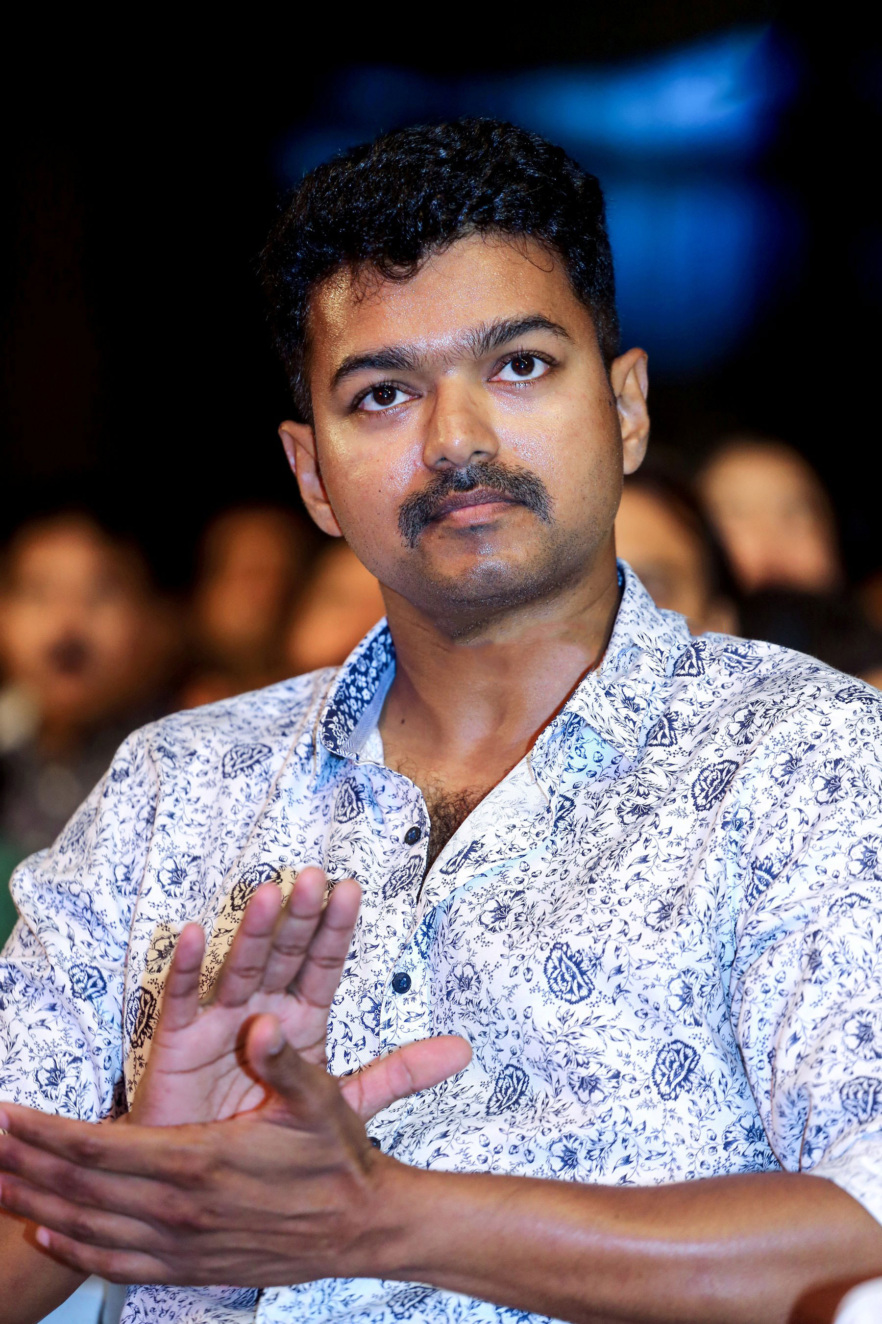 Vijay at Puli Audio Launch